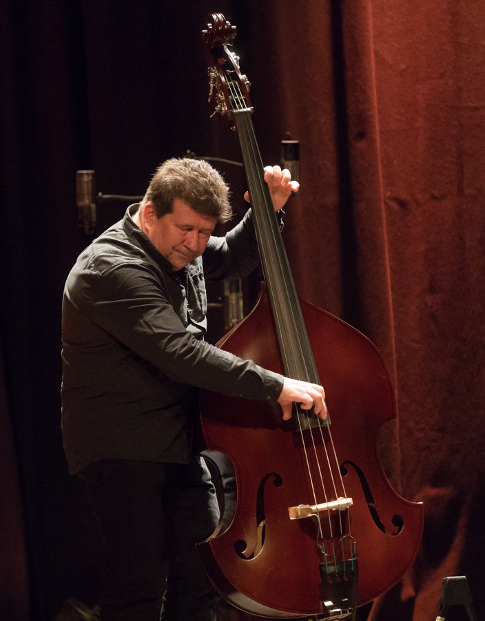 Svein Aarbostad performs with Hot Club de Norvège and Kourosh Kanani at Cosmopolite. The concert was part of Djangofestivalen 2017 and took place on 21. January 2017 in Oslo. Lineup: Jon Larsen (guitar) Svein Aarbostad (double bass) Finn Hauge (violin) Stian Vågen Nilsen (guitar) Kourosh Kanani (guitar) Unidentified (vocal)